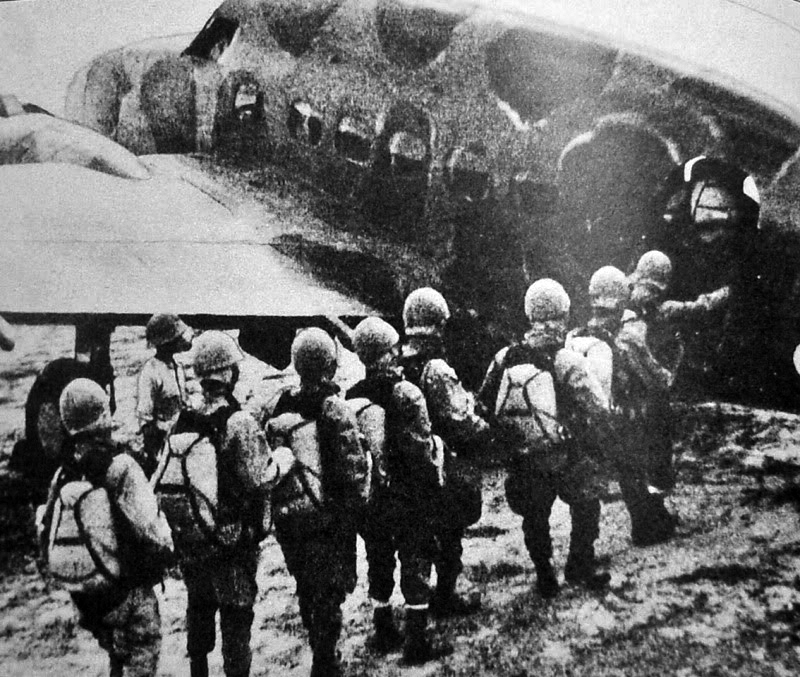 IJA Paratroopers of the 2nd Raiding Brigade boarding Kawasaki Ki-56 'Thalia'.